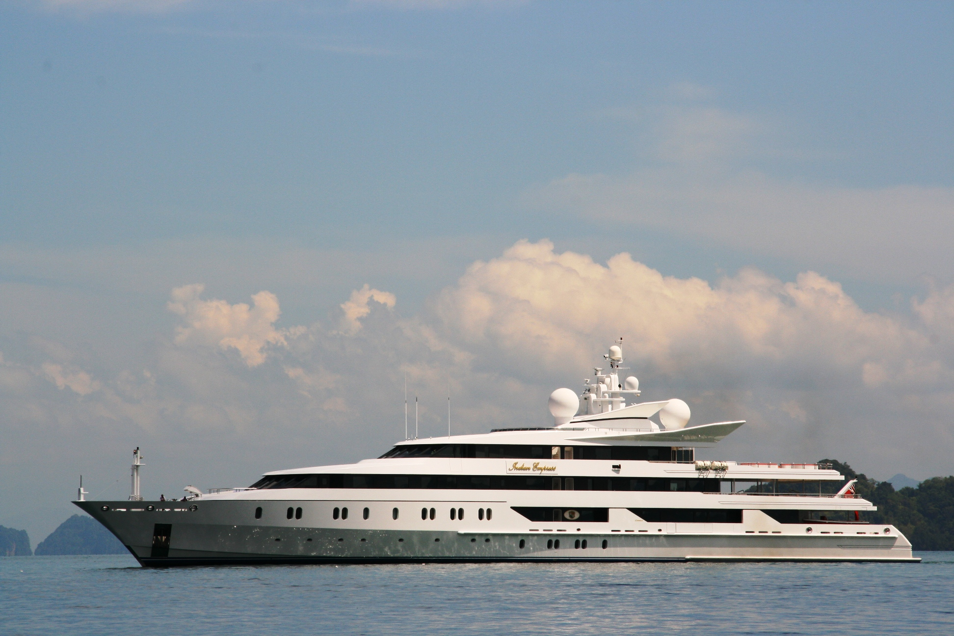 The Indian Empress was cruising in the Andaman Sea near Phuket (Thailand) during the start of April 2007.